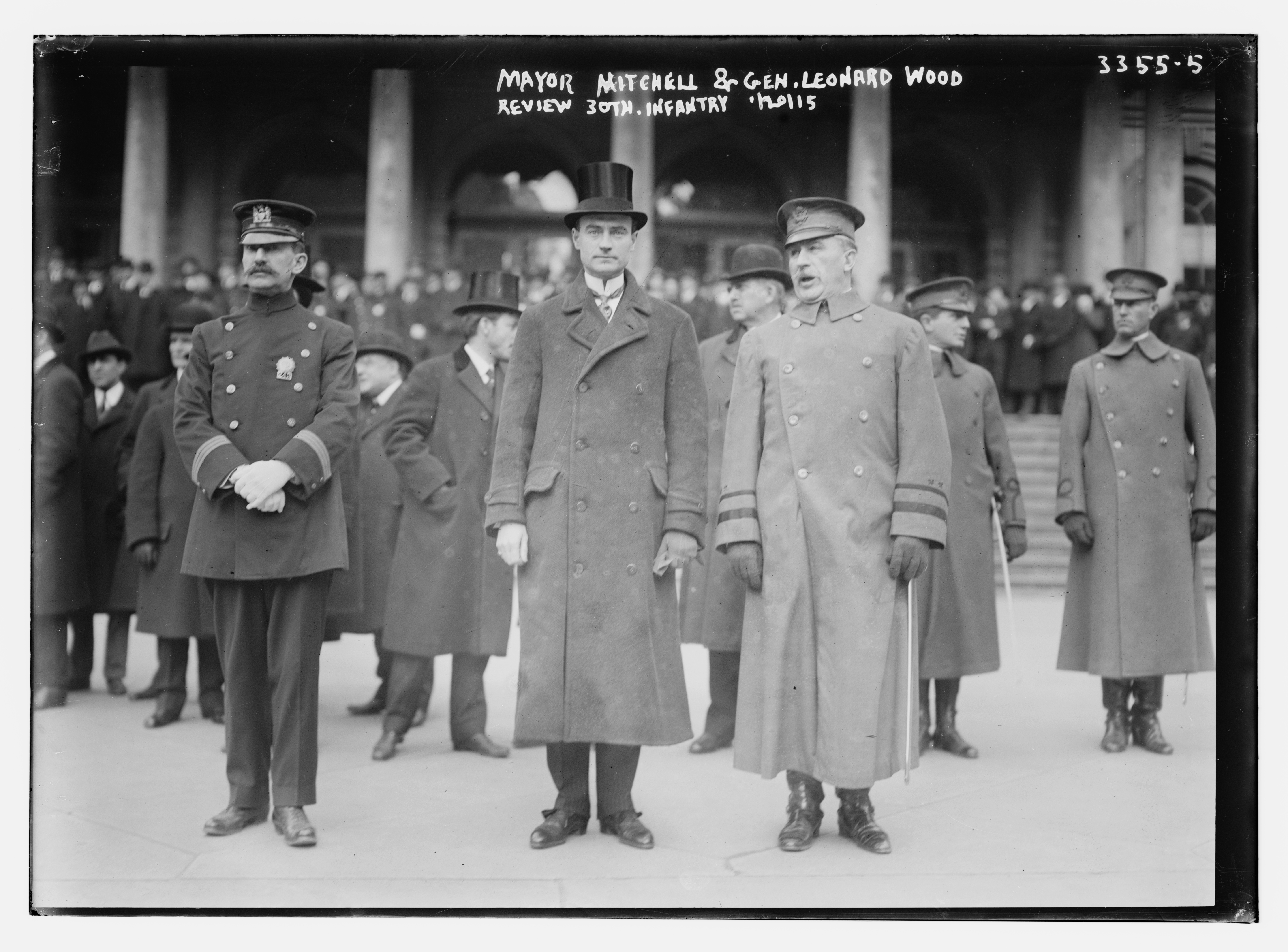 Arthur Hale Woods, the New York City Police Commissioner and John Purroy Mitchel, the Mayor of New York City and General Leonard Wood reviewing the 30th Infantry on January 20, 1915.